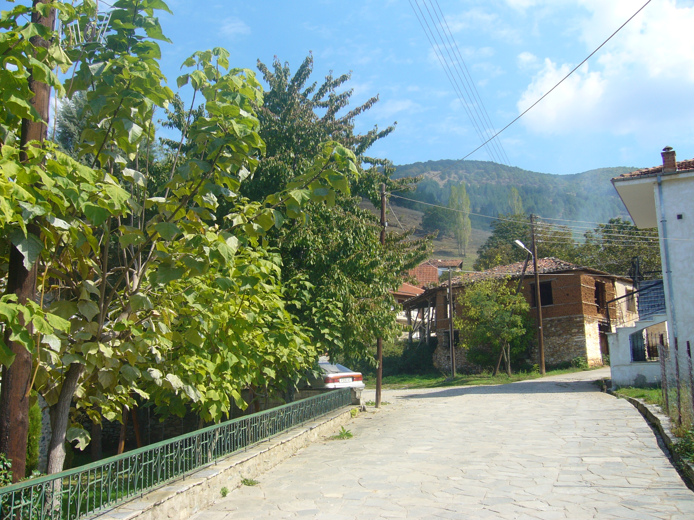 Vilage of Vasiliada/Zagorichani, Kastoria prefecture, Greece.